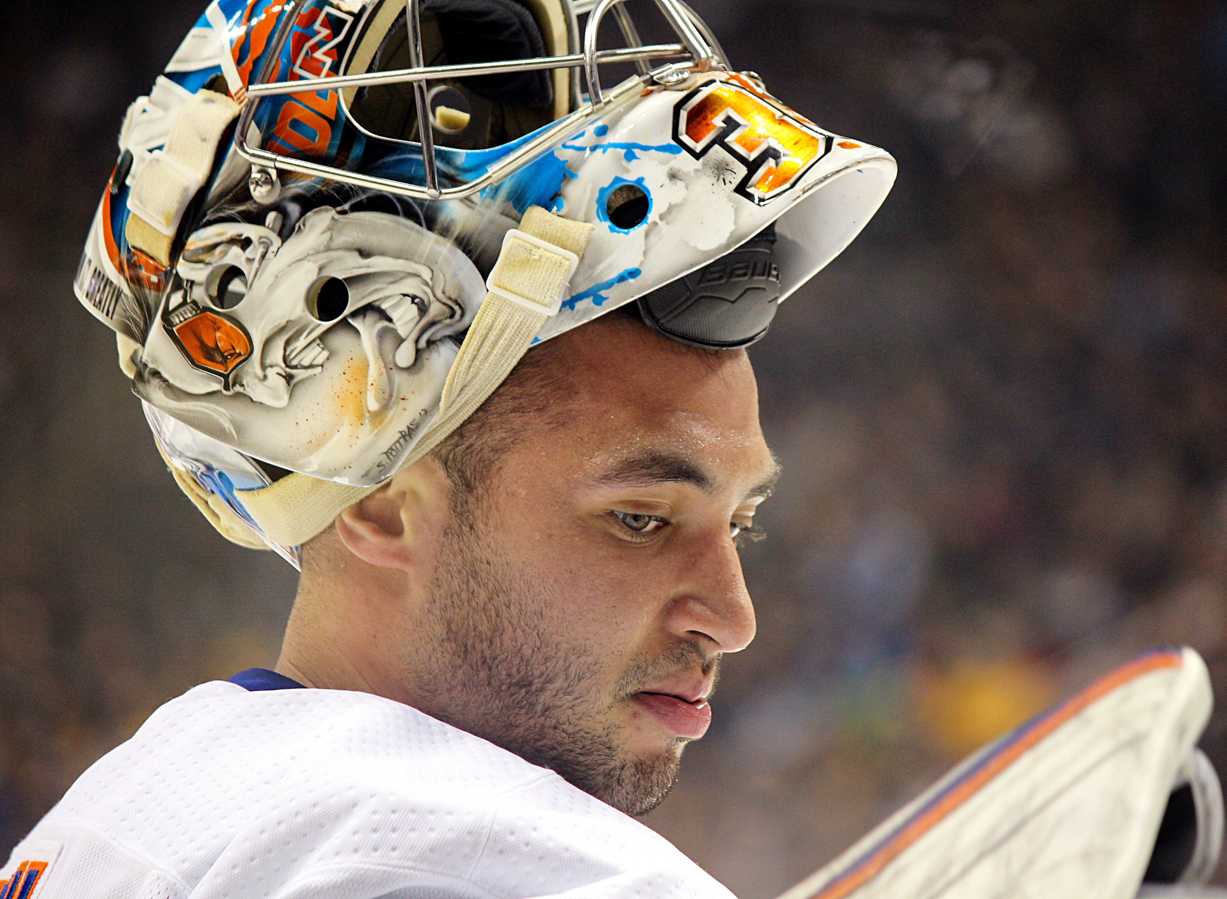 New Yorks Islanders goaltender Christopher Gibson during a game against the Pittsburgh Penguins at PPG Paints Arena in Pittsburgh, PA. Saturday, March 3, 2018.